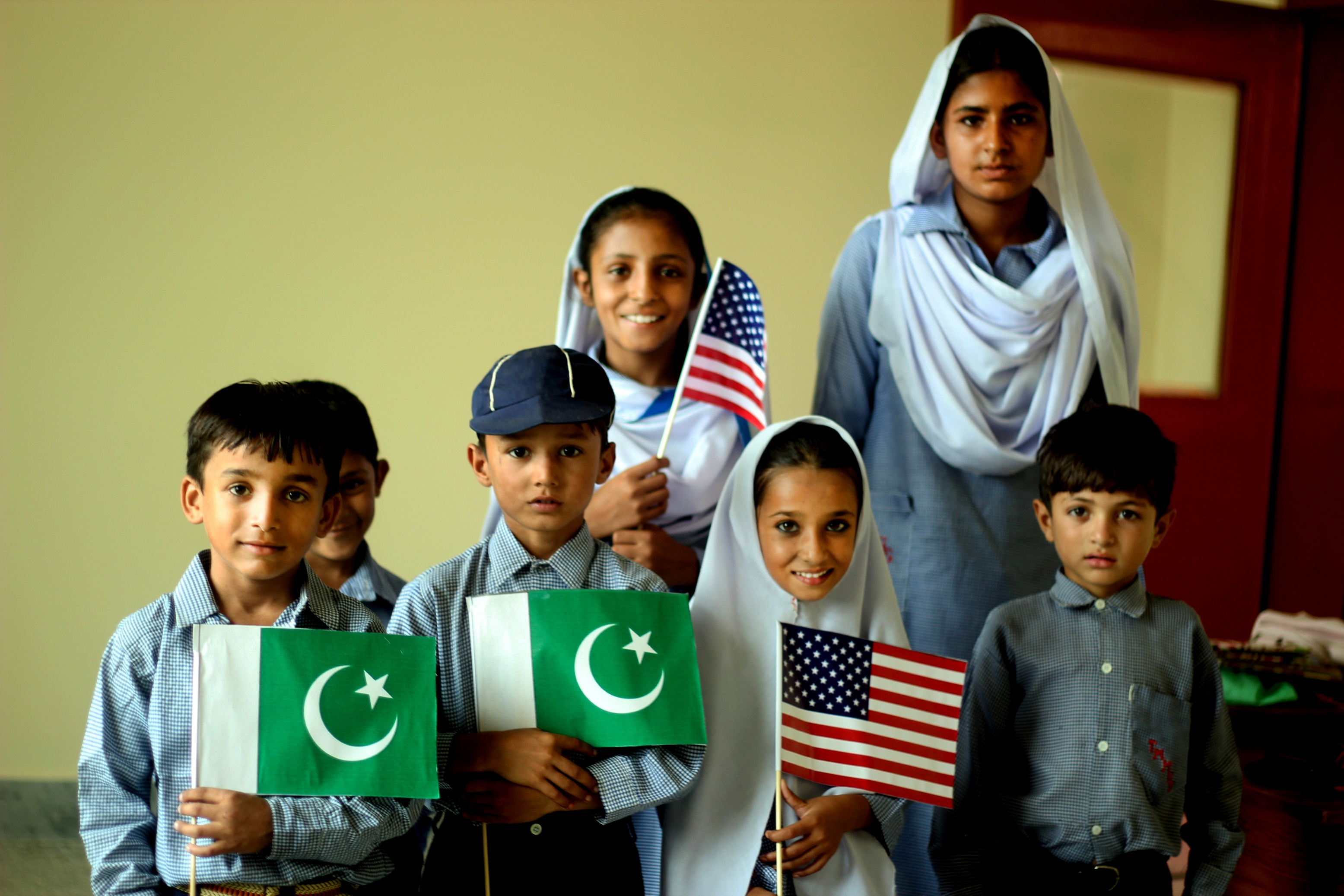 Sept 06, 2012 : Construction (first and second floor) of Tameer-e-Millat Model School for Girls (TMMSG) in village Latwal, of Tehsil Fateh Jhang has been completed and on Sept 06, 2012 Project closing and School opening ceremony was held in which students, teachers, parents and community leaders participated.